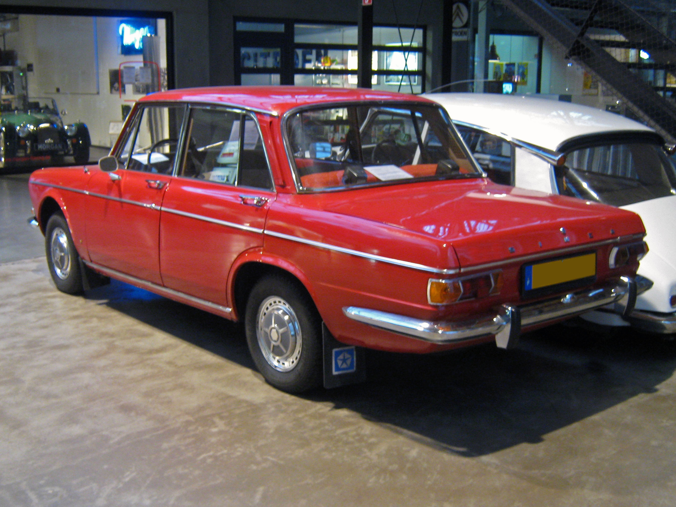 Simca 1301 Special rear view